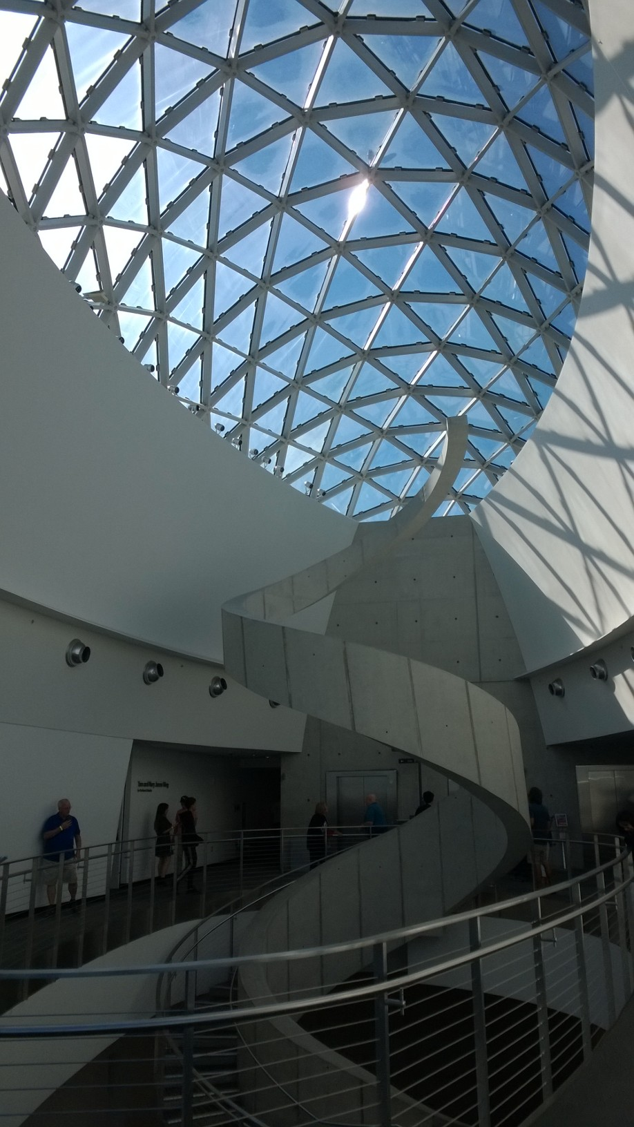 Interior spiral staircase as viewed from 3rd floor of the Salvador Dalí Museum atrium in St. Petersburg, FL in the United States of America